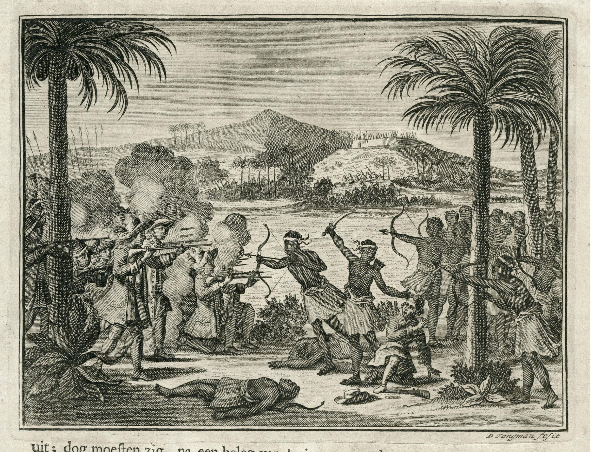 The conquest of Hoetemoeri. Hoetemoeri is a village on the island of Hitu, that was conquered in 1618 by governor Van Speult. The plate is taken from the work 'Oud en Nieuw Oost-Indien' by Francois Valentyn. In the background the fort of Hoetemoeri is depicted.